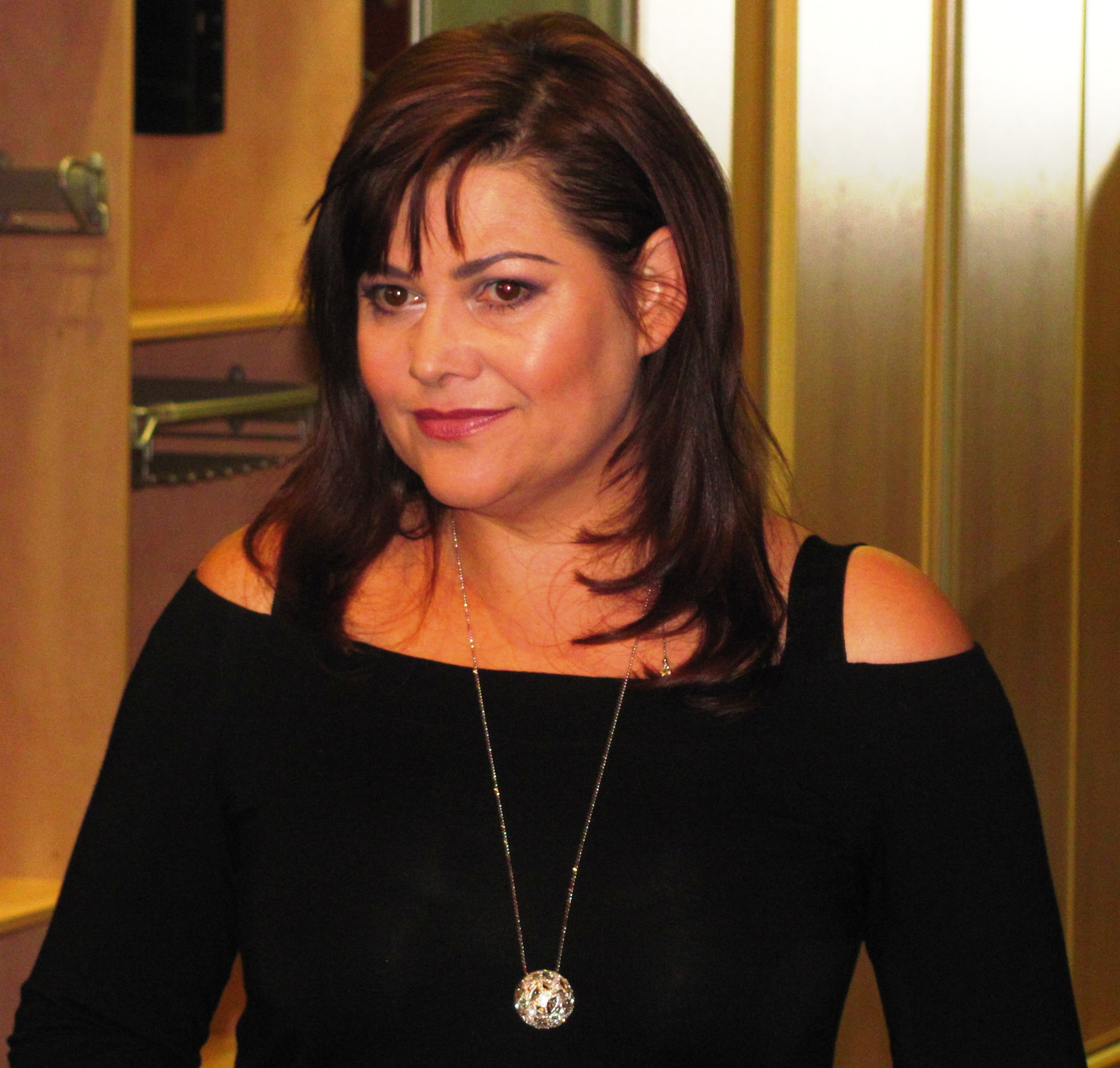 Ilona Csáková, Czech vocalist